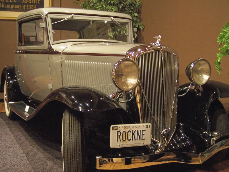 1933 Rockne Model 10 at the Studebaker Museum in South Bend, Indiana